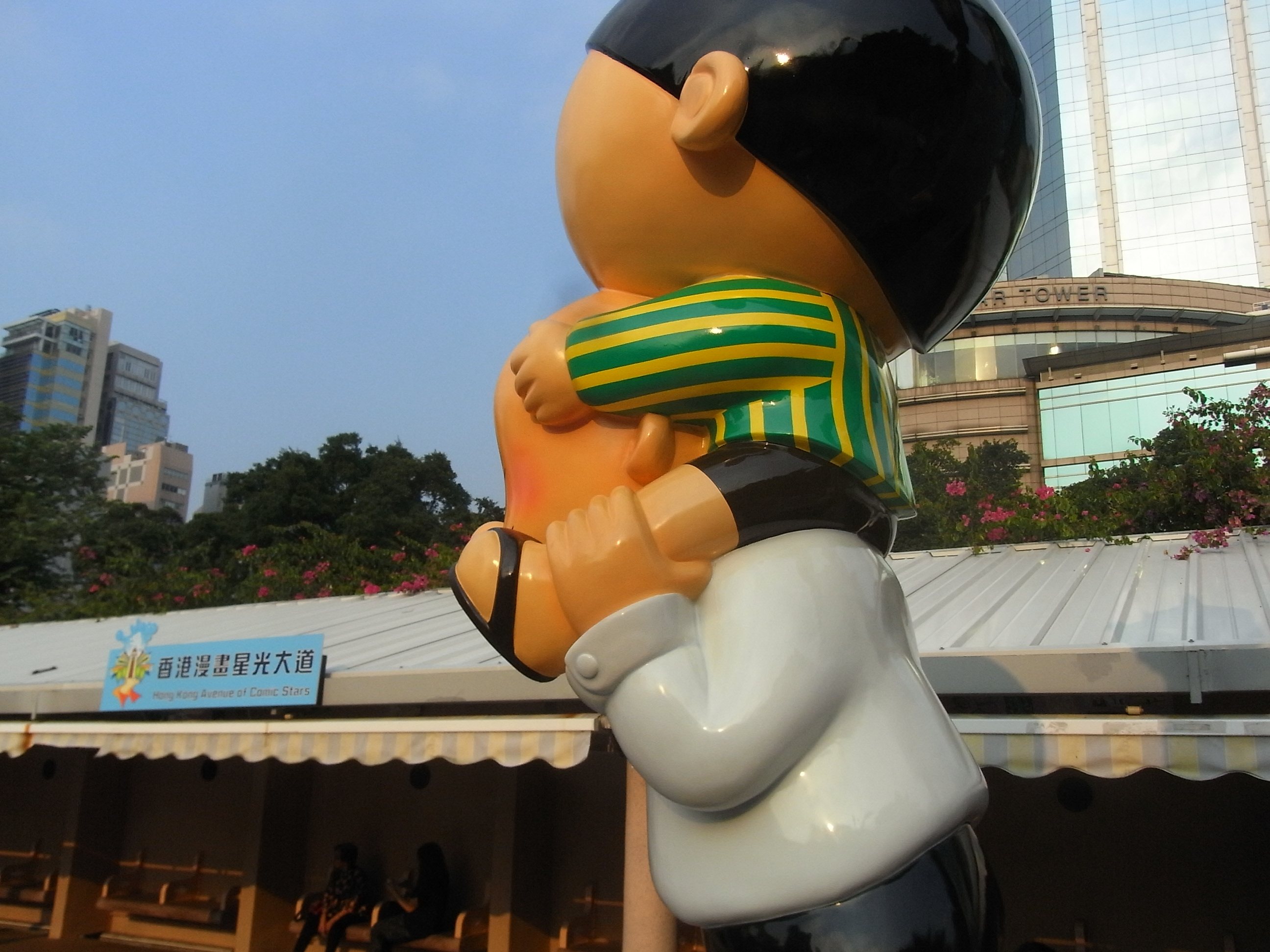 香港漫畫星光大道牛仔漫畫人物, Hong Kong Avenue of Comic Stars, Kowloon Park, Nathan Road, Tsim Sha Tsui, Hong Kong